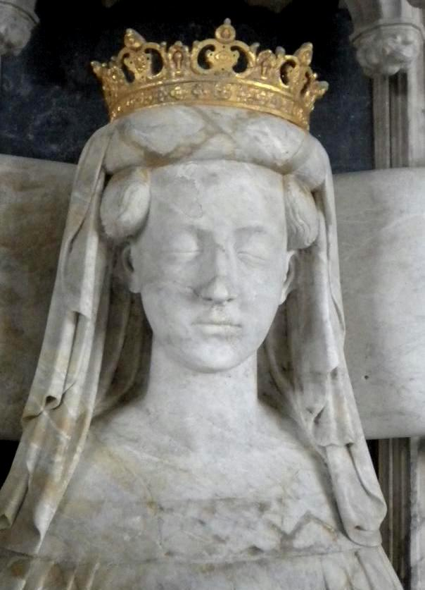 Portrait detail of tomb of Queen Margaret the Great of Denmark, Norway and Sweden in Roskilde Cathedral, as released by image creator Ristesson;Place: Roskilde, Denmark